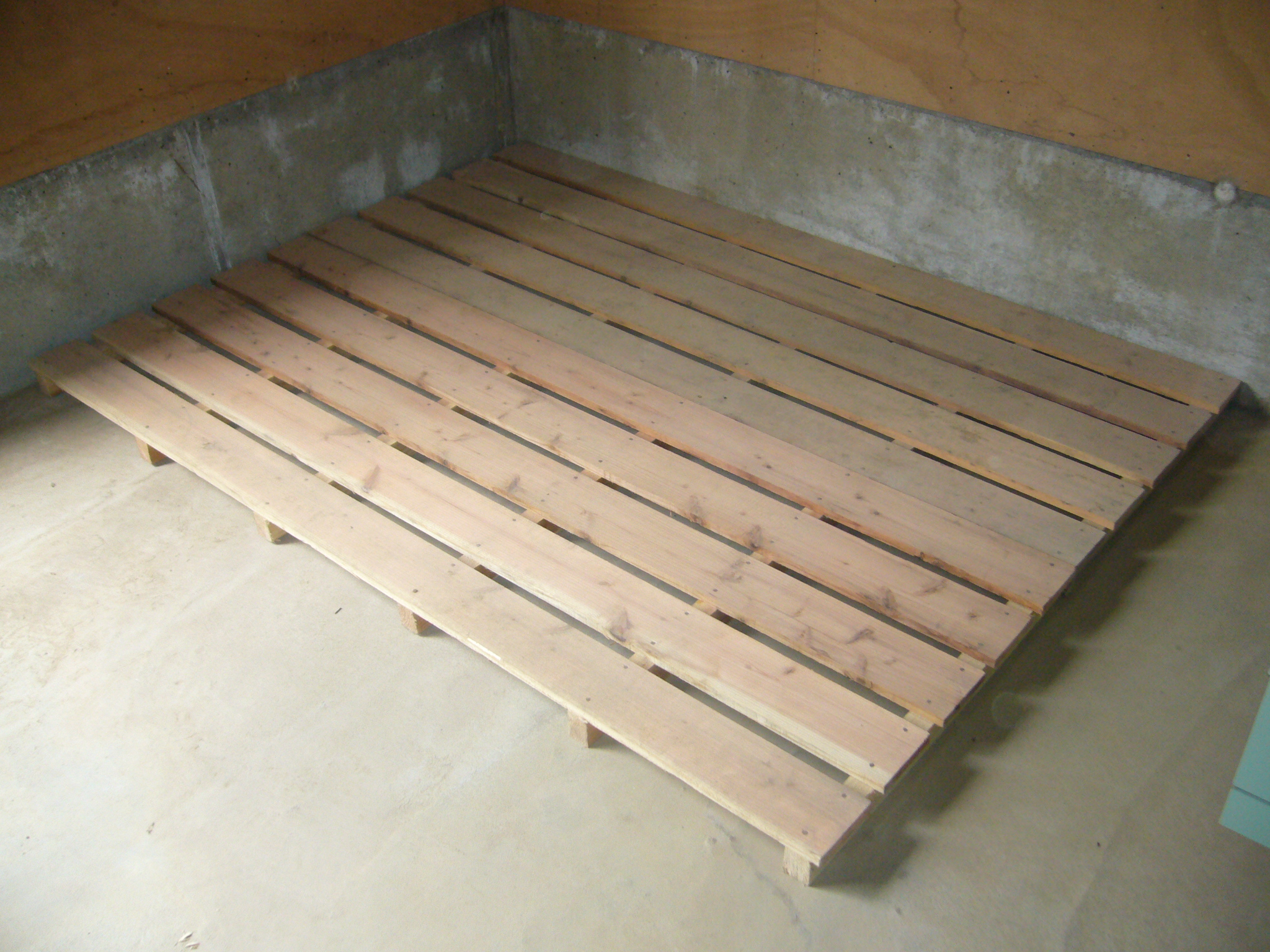 slatted wooden flooring,sunoko,katori-city,japan